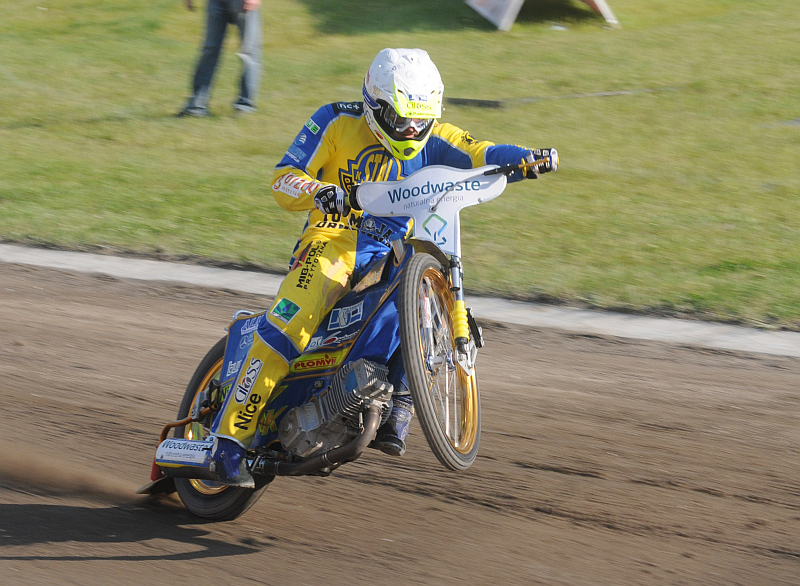 Krzysztof Kasprzak in season 2014